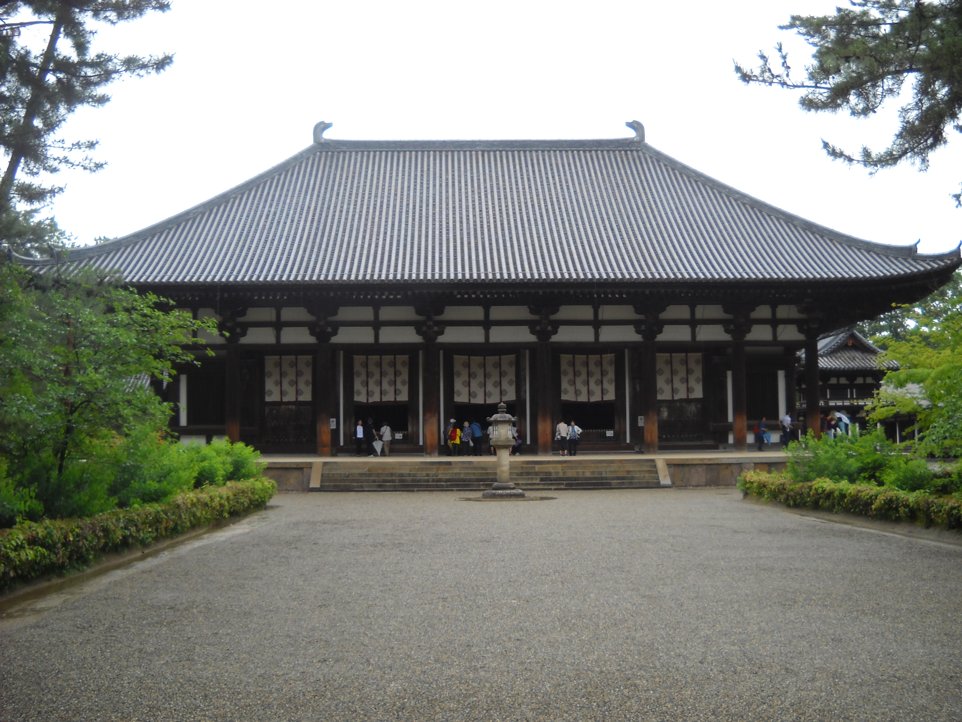 Golden Hall, Toshodaiji Temple, Nara, June 2019.